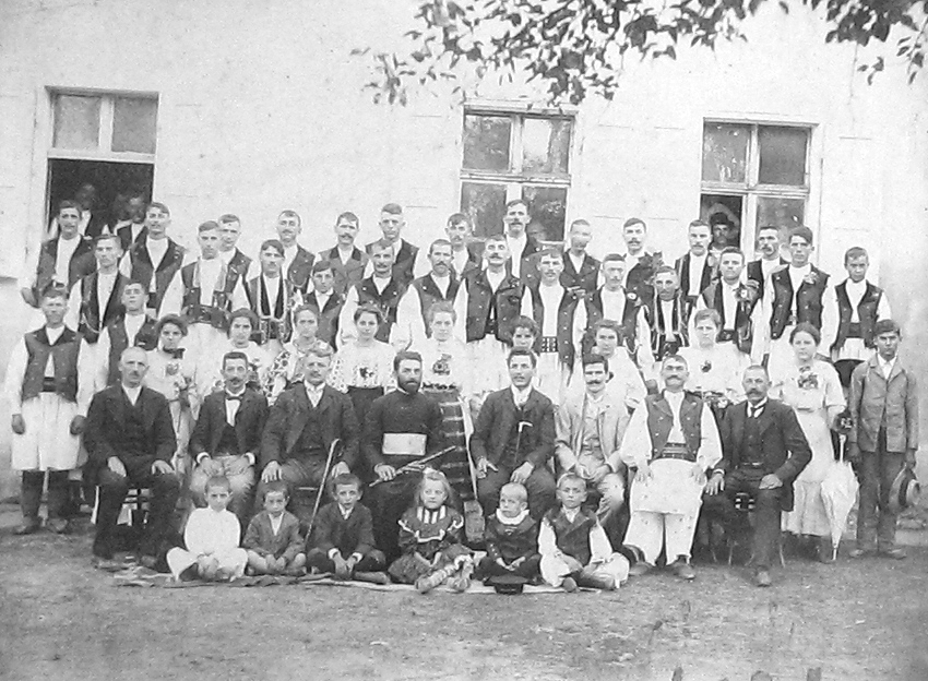 Dalboșeț choir in 1902